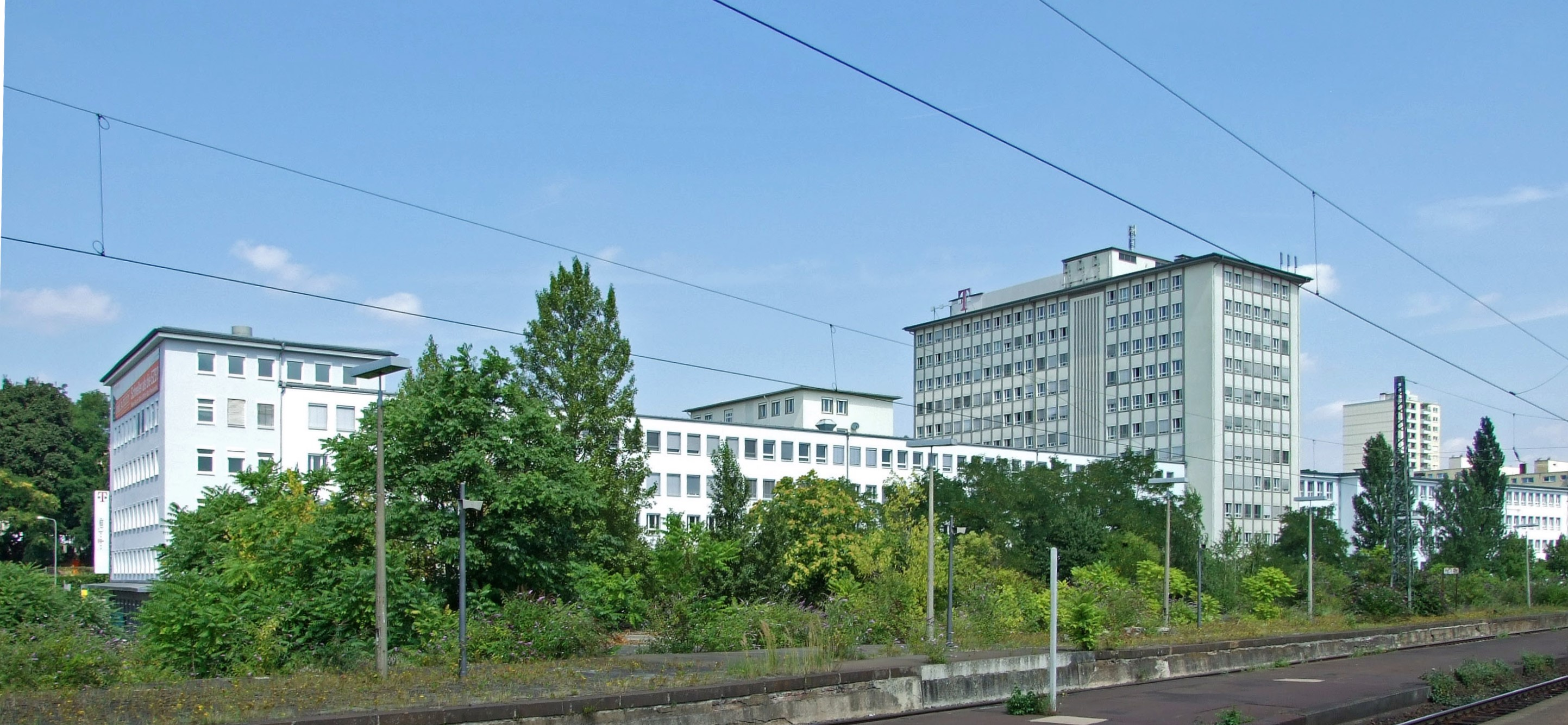 Former mail order company Neckermann building (1951-60) and now Telekom building, Danziger Platz (beside Ostbahnhof) in Frankfurt am Main Ostend